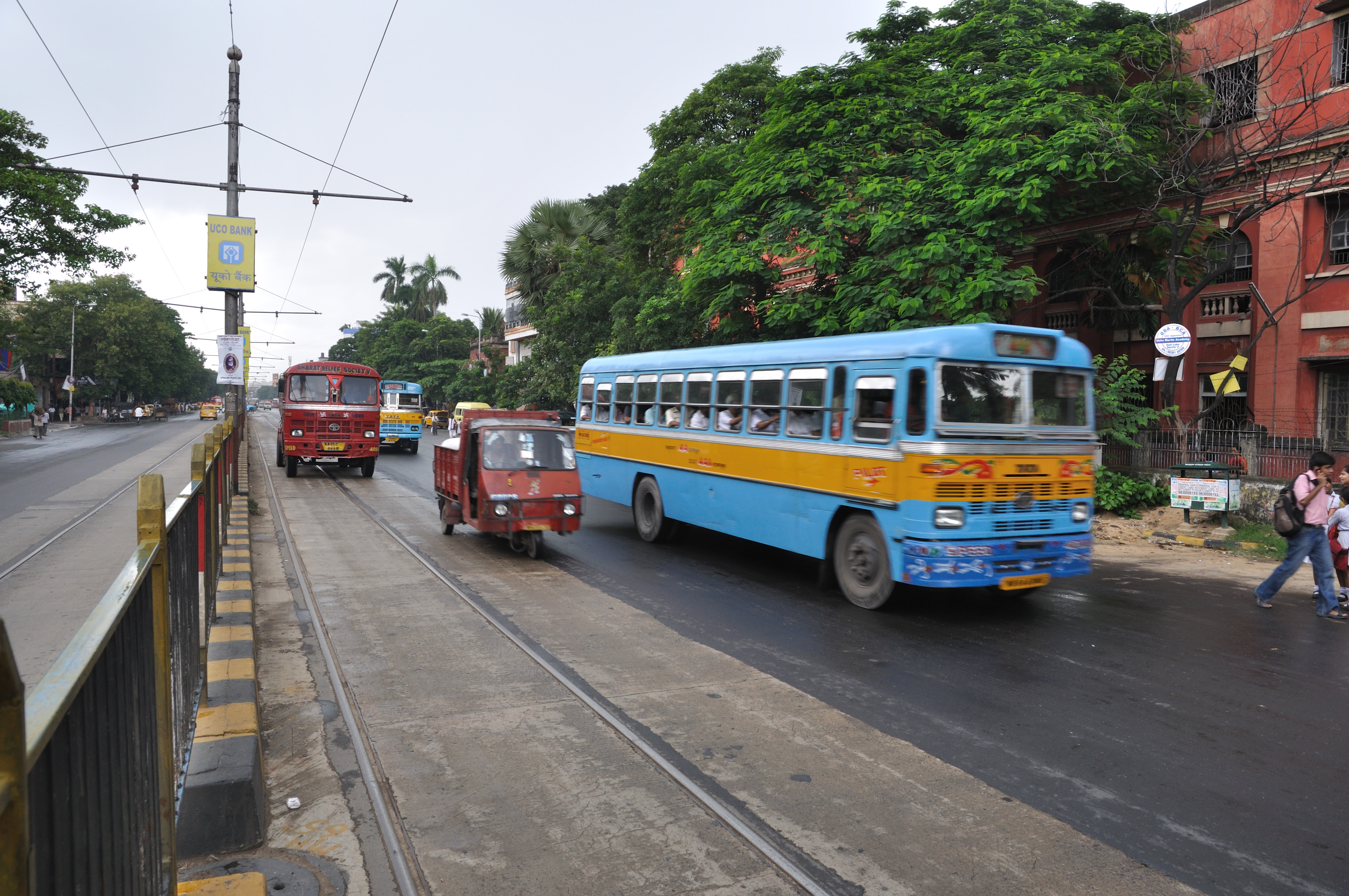 APC Road emerges from the Famous Shyambazar Five-Point Crossing [Paanch mathar more]. It then passes through Khanna Crossing, Beadon Street crossing, Manicktala Crossing , Rajabazar Crossing , College Street crossing, MG Road Crossing, Sealdah Station and Vidyapati Flyover in Kolkata.